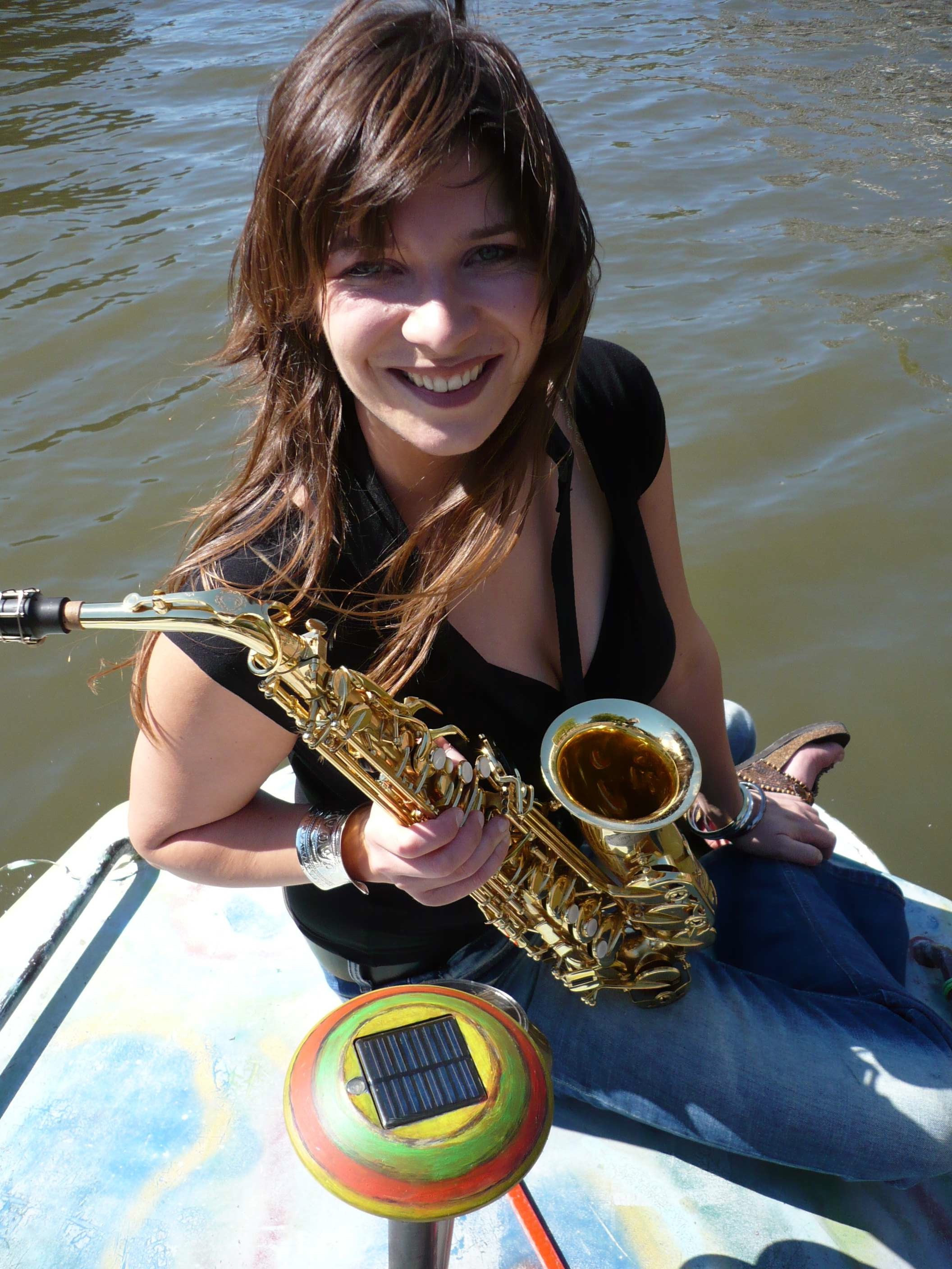 Susanne Alt